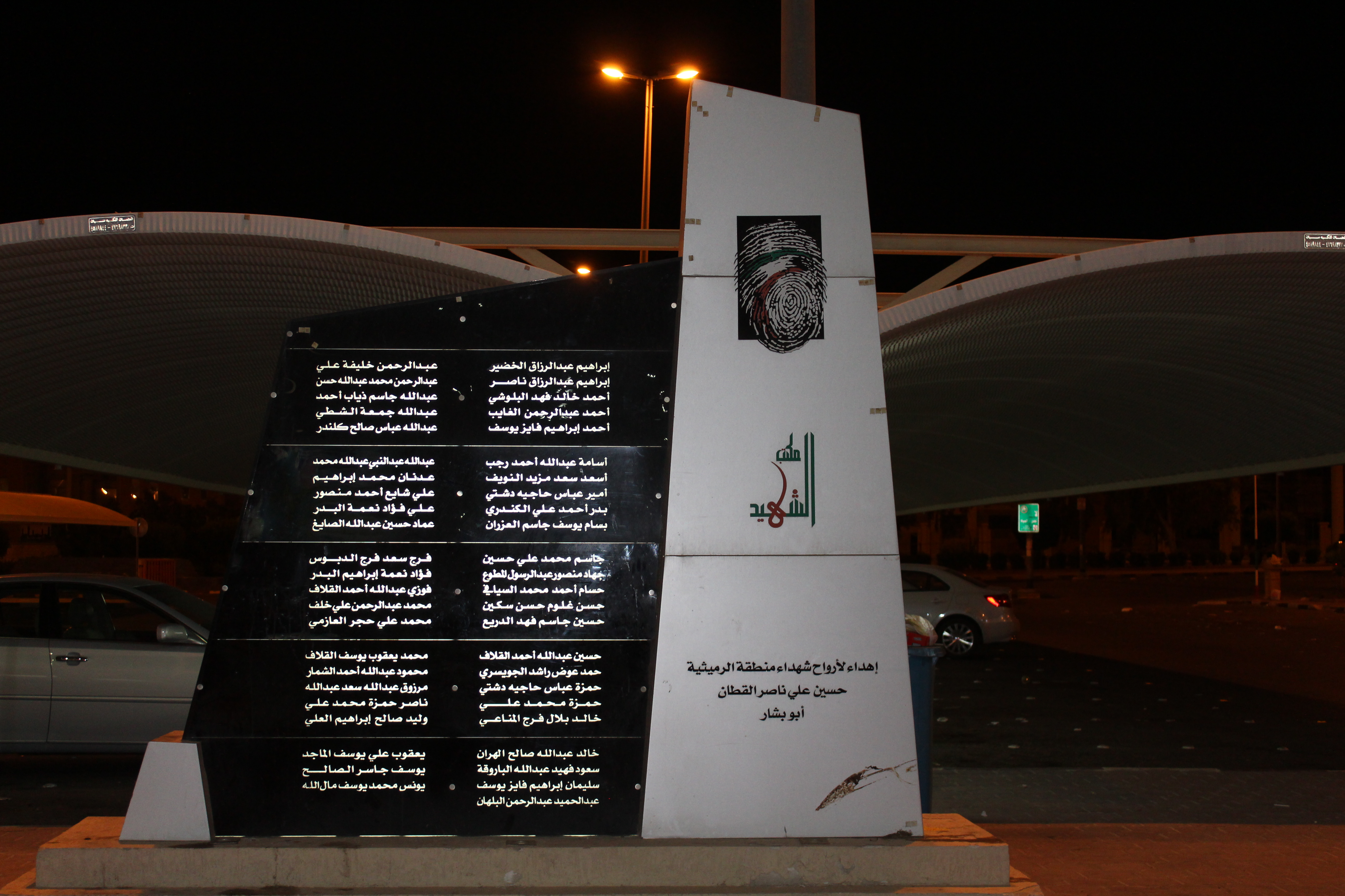 This is a monument in Rumaithiya, Kuwait showing the names of the martyrs from the area in the Iraqi invasion of Kuwait.